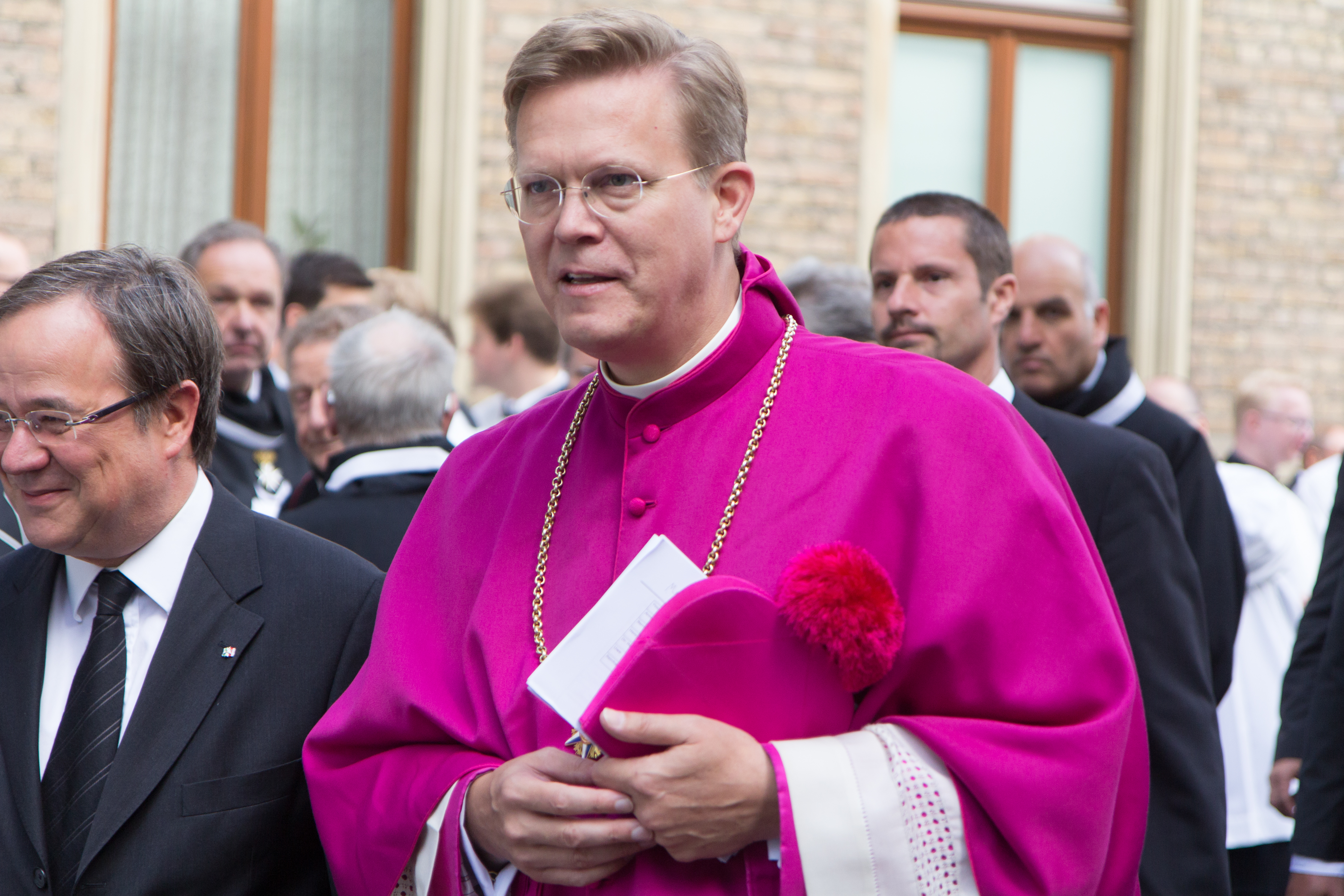 Funeral procession of Cardinal Joachim Meisner in Cologne. Starting in St. Gereon (viewing area), going to the Cologne Cathedral (Funeral place)